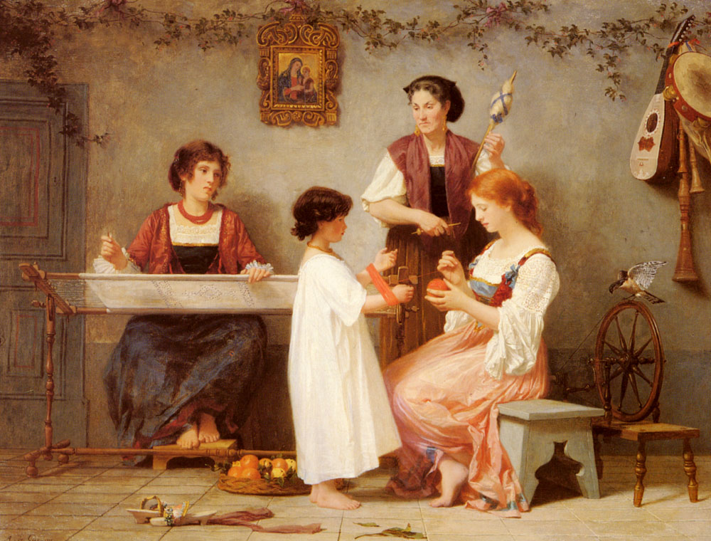 Afternoon pasttimes.